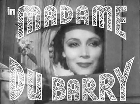 Screenshot from the trailer for the 1934 film Madame Du Barry. Trailers from films before 1964 are in the public domain.